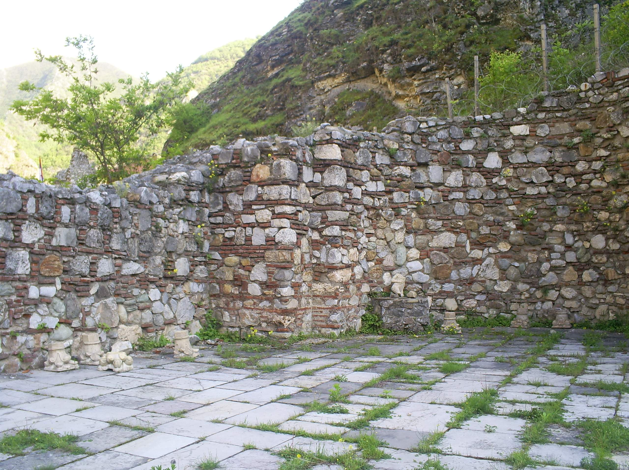 Remains of monumental Refectory with parts of sculptures in Sveti Arhangeli near Prizren, Serbia.